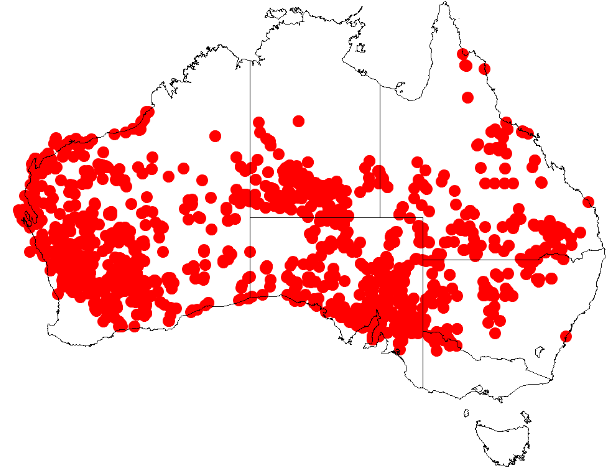 Scaevola spinescens occurrence data downloaded from Australasian Virtual Herbarium on 12 May 2019